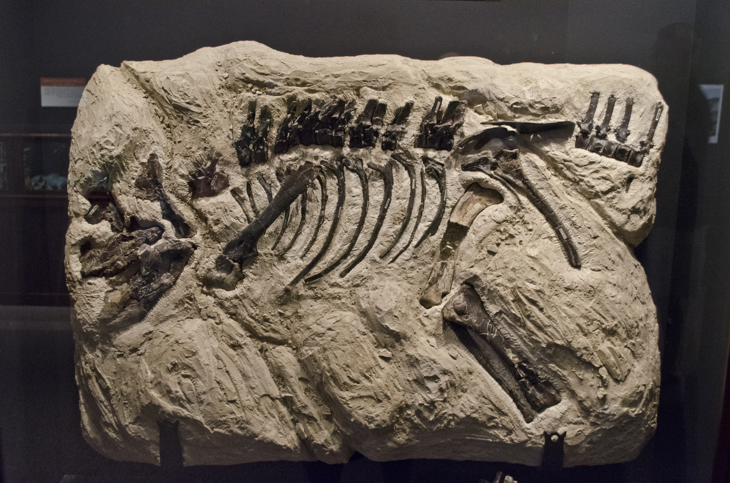 Juvenile Montanoceratops skeleton on display at the Museum of the Rockies in Bozeman, Montana. This specimen was collected in Glacier County, Montana. Montanoceratops (its name means "Montana horned face") was a small frilled dinosaur that lived about 72 to 70 million years ago in Montana and Alberta. The first fossil remains of Montanoceratops were collected near Buffalo Lake, Montana, in 1916. It was about 10 feet long, and roughly 3.5 feet high at the hip. It had a very vertical tail, which was probably a sexual signalling device.